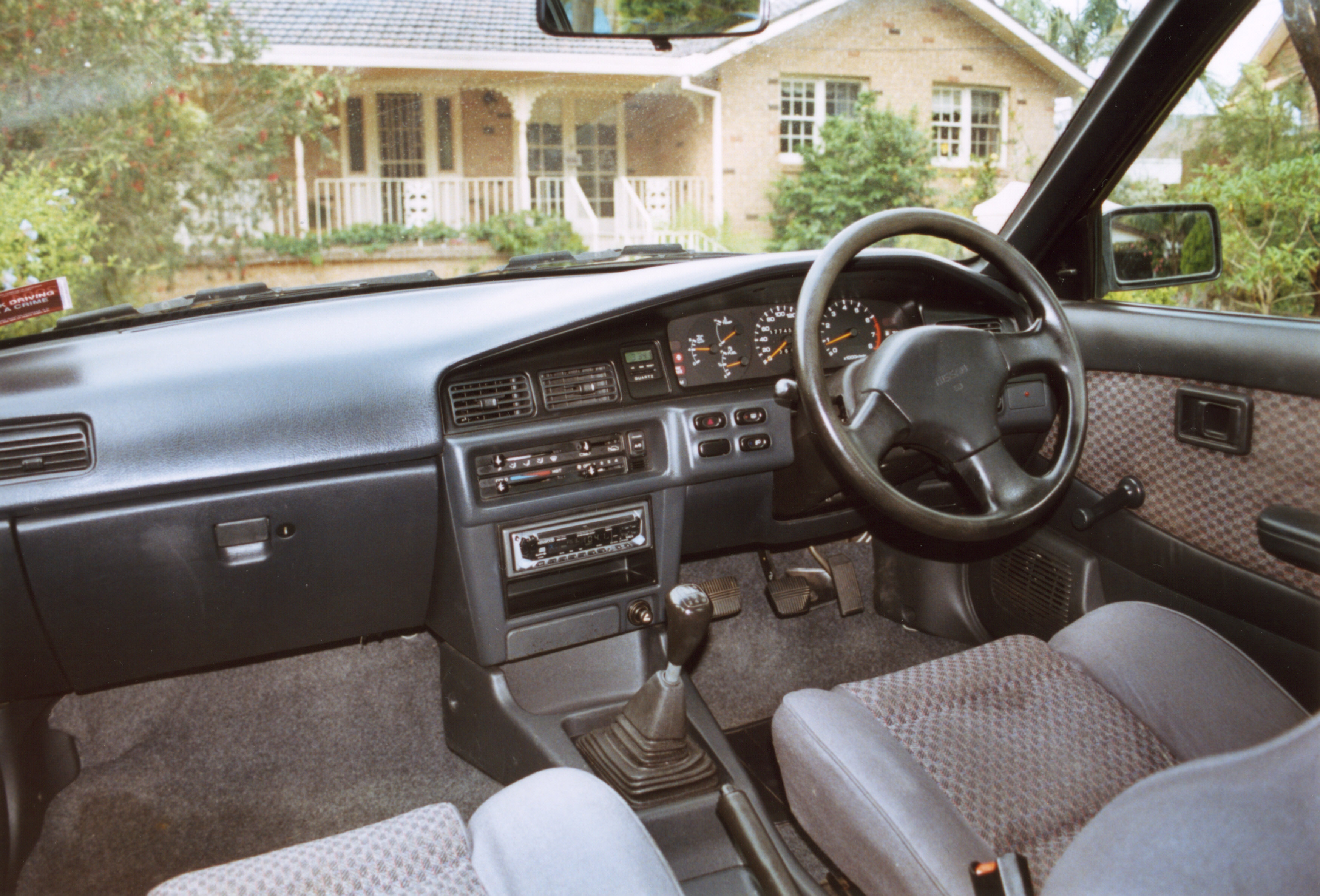 This image is a scan of a 35mm print taken in 2003 of my Nissan Pintara TRX